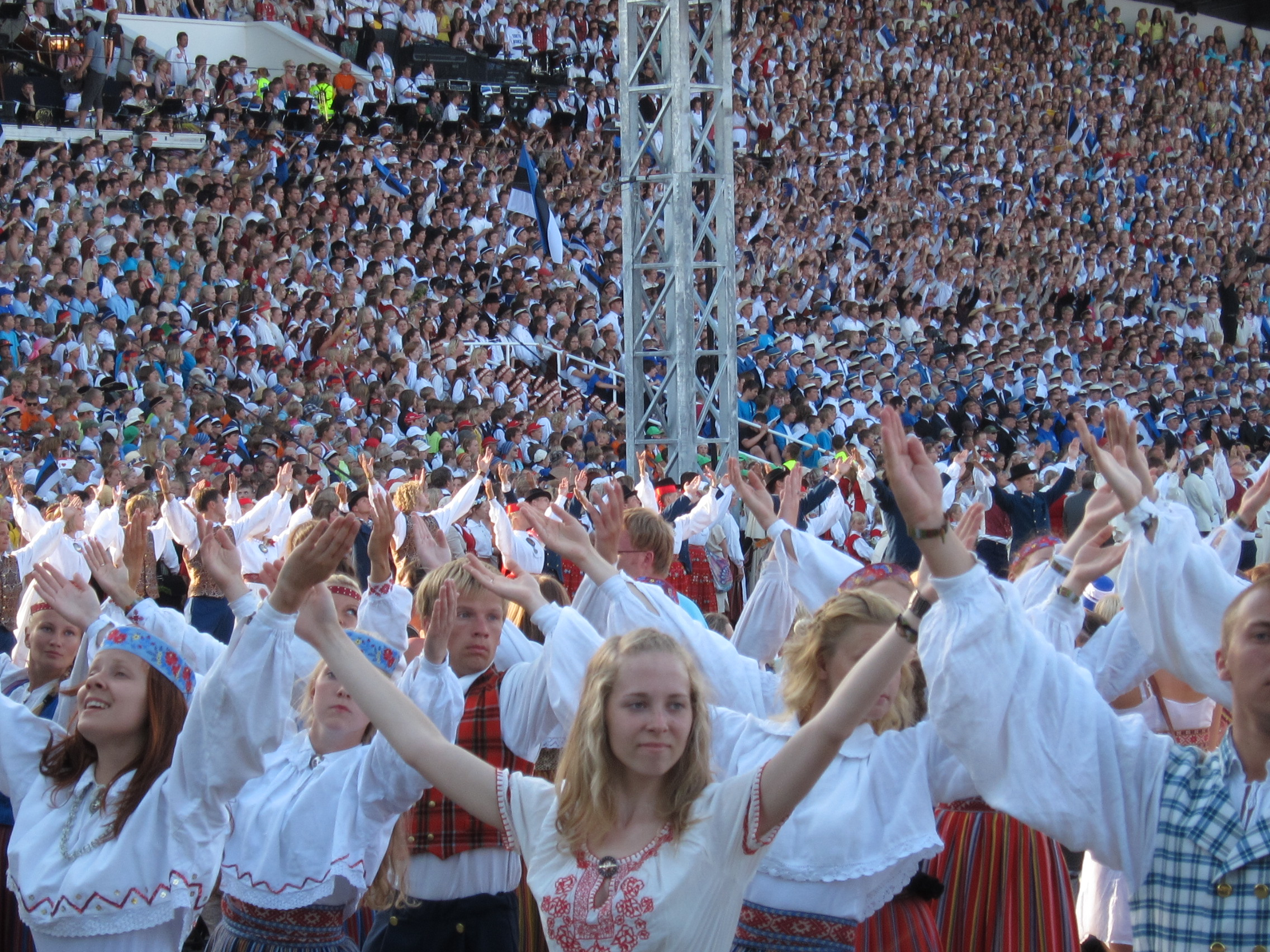 11th Youth Song and Dance Celebration. Song of the Nordic Country being performed by the joint choir and the dancers